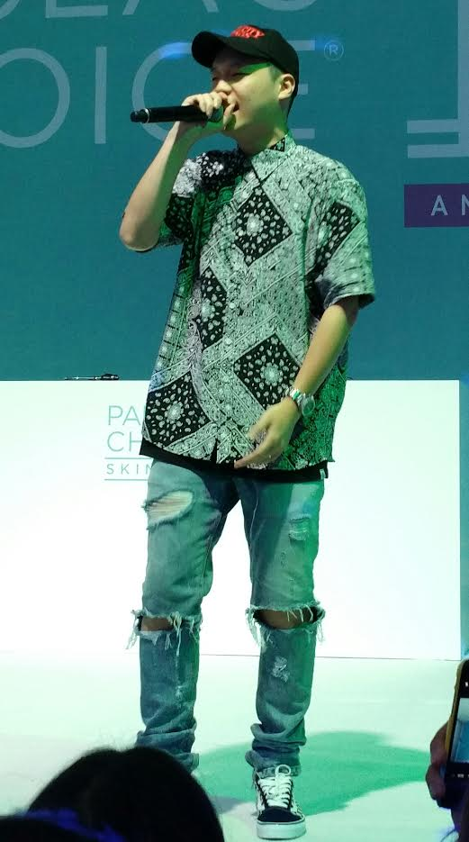 Paloalto performing at Paula's Choice 10th Anniversary Celebration event, Namsan J-Gran House, Jangchungdan-ro, Jung-gu, Seoul.